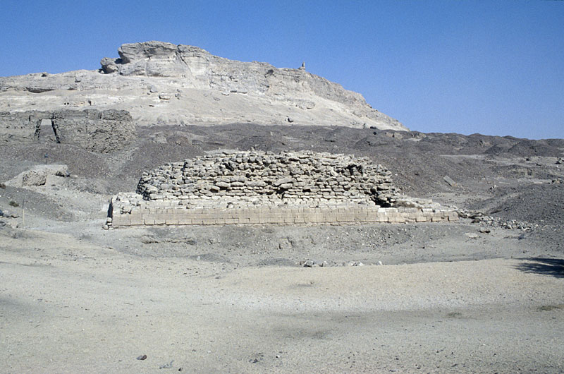 Small Step Pyramid of Zaiyat el-Maiyitin